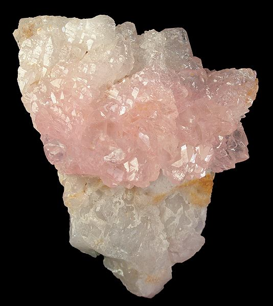 Quartz (Var.: Rose Quartz), Quartz Locality: Ilha claim, Taquaral, Itinga, Jequitinhonha valley, Minas Gerais, Southeast Region, Brazil (Locality at ) Size: 8.9 x 6.6 x 3.7 cm. This is a very lustrous, sparkling specimen which features a string of rose quartz running down the middle of a quartz shard. The quartz directly under the rose quartz is crystallized, though in flat-laying crystals. The rose quartz comes up 3-dimensionally from that surface and splays out nicely. Individual rose quartz crystals are quite gemmy, and to 1.5 cm. Unusual aesthetics. This is the old rose quartz mine located on hard-to-work ground that is sometimes flooded, as it is located in the middle of the river - literally, this is what its place name means.